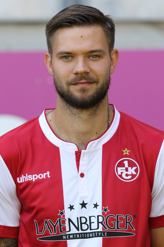 Lukas Spalvis (Nr. 33)